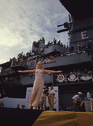 Actress Carroll Baker throws open her arms to the men of the aircraft carrier USS Ticonderoga (CVA-14) as the ship steams in the South China Sea in December 1965. Caroll Baker was part of the Bob Hope troupe.